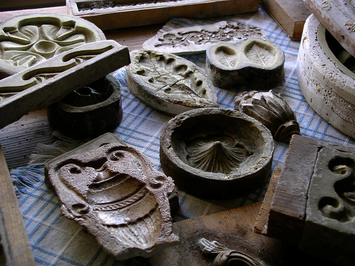 Brass mould, Lönneberga hembygdsgård